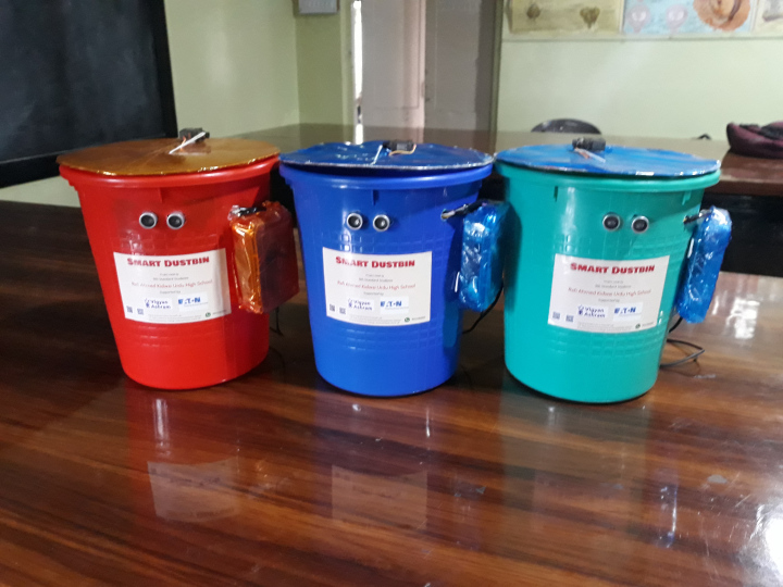 Smart Dustbin